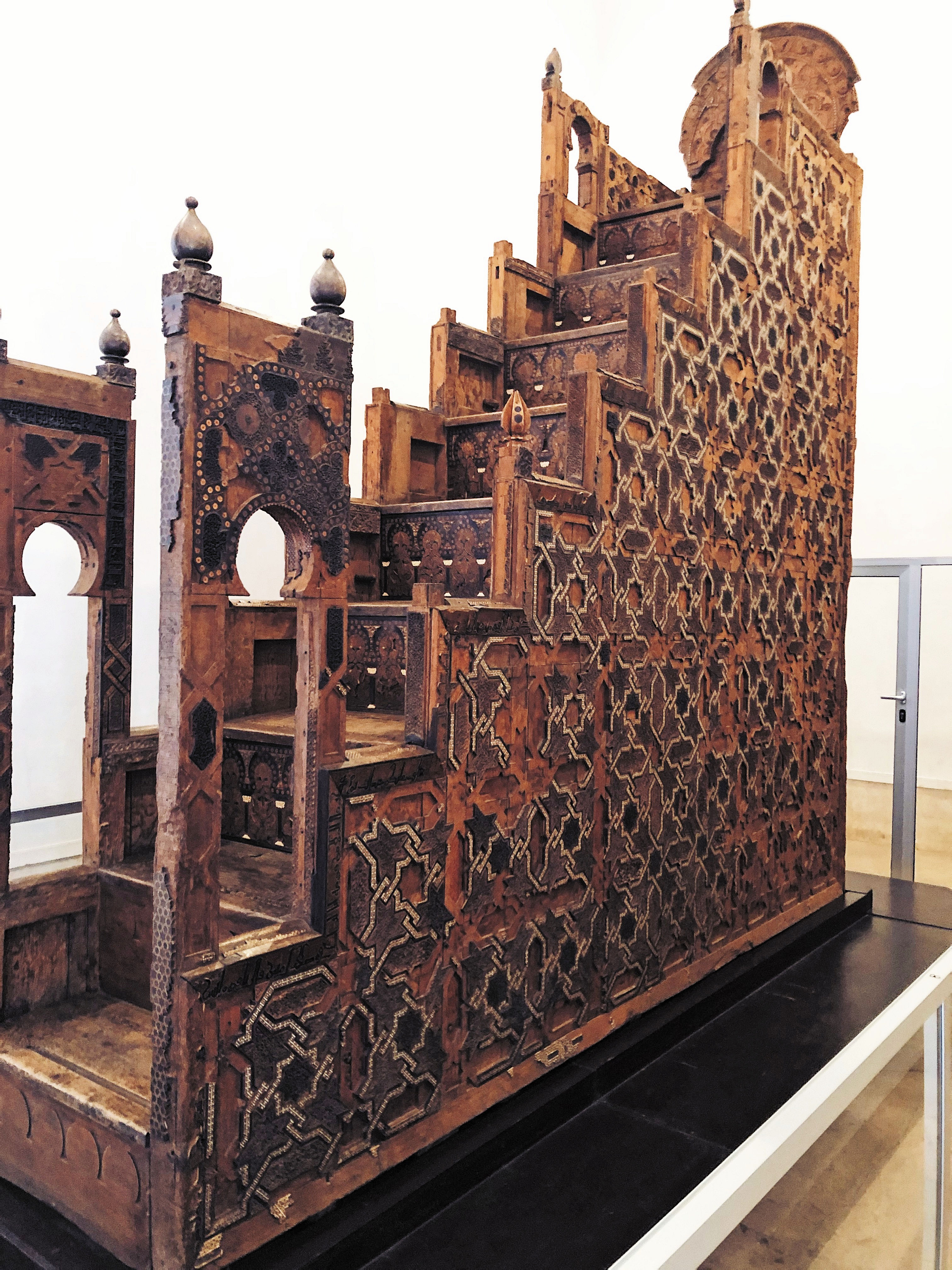 The Almoravid minbar of the Kutubiyya Mosque, produced in Cordoba in 1137 by commission of Amir Ali ibn Yusuf for the main mosque (Ben Youssef Mosque) in his capital of Marrakesh. (Note: This is just a retouched version of the picture uploaded by another user.)